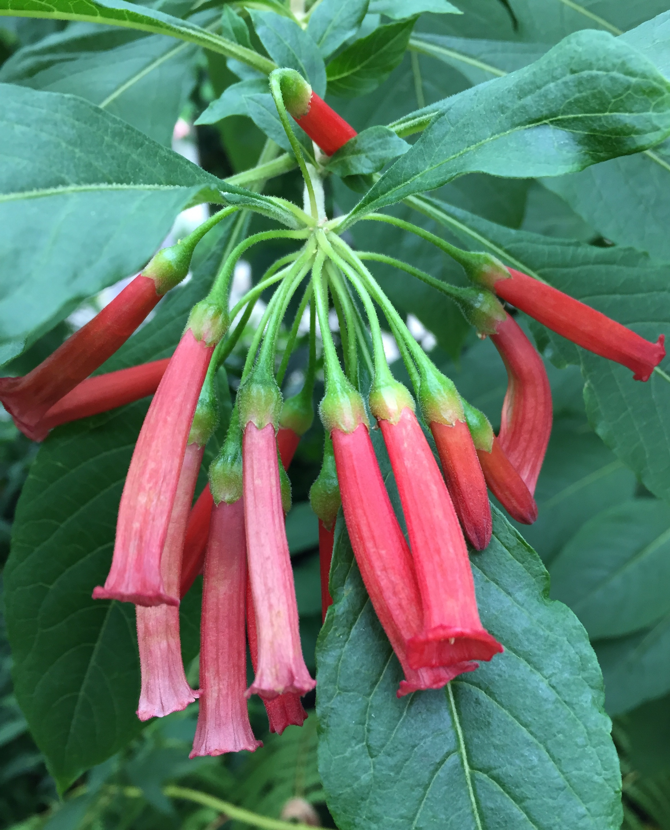 Cultivated specimen of Iochroma coccinea Scheidw. (Solanaceae) growing under glass in a border in the Temperate House, Kew Gardens, Surrey, UK. Close-up of inflorescence of scarlet, tubular flowers, for which the species received its specific name (Latin 'coccineus/coccinea/coccineum' - 'scarlet'). The species is native to Mexico. The majority of Iochroma spp. are of South American rather than Central American provenance.